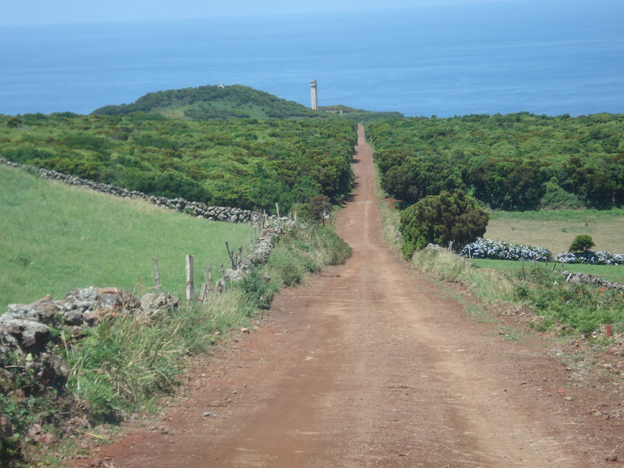 The road to the Ponta dos Rosais Lighthouse, Rosais, Velas, island of São Jorge, Azores